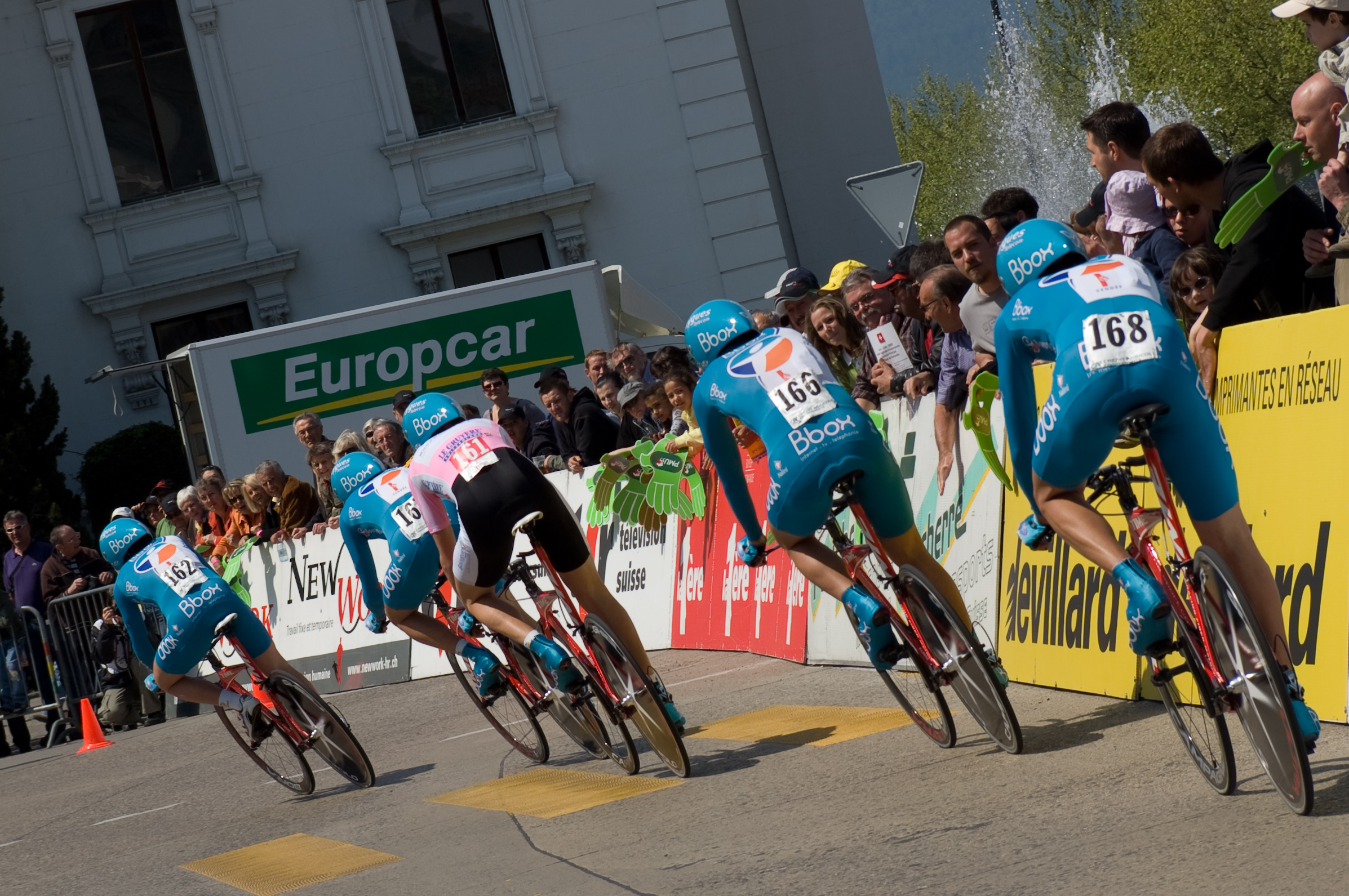 Tour de Romandie 2009 - 3rd stage - team time trial